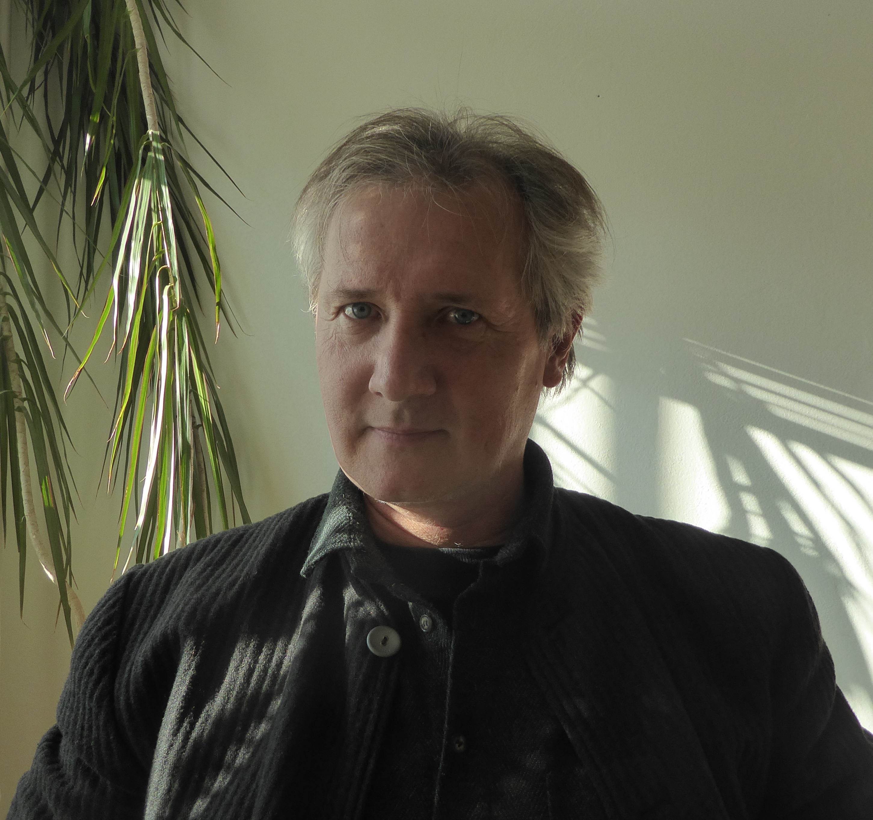 this is an image of slovakian composer peter machajdik